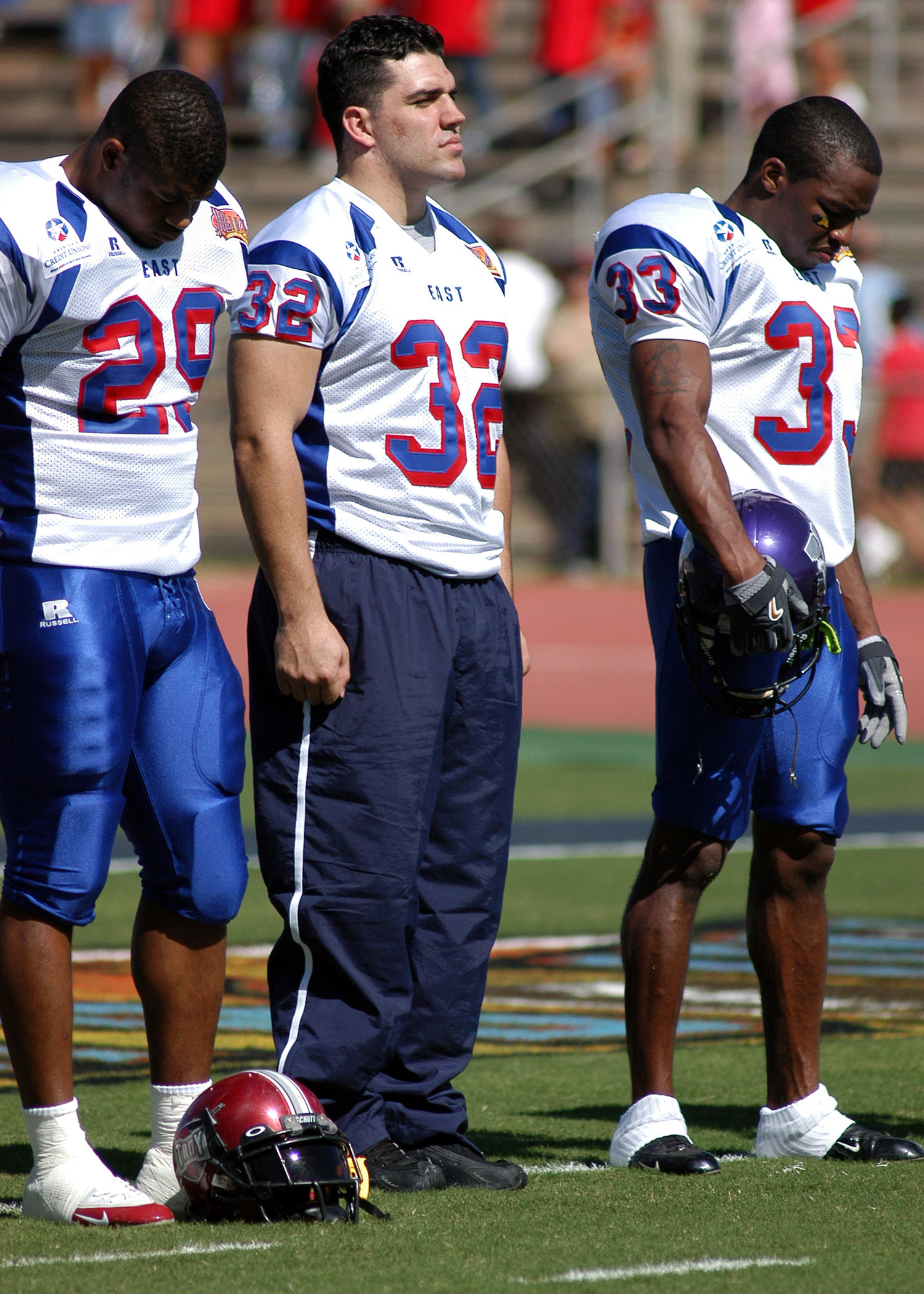 Kahului, Maui, Hawaii (Jan. 22, 2005) - Navy Midshipman Kyle Eckel stands at attention during the playing of the National anthem at the 2005 Hula Bowl All-Star game in Kahului, Maui, Hawaii. Eckel is the 24th player in school history to be selected for the Hula Bowl All-Star game, but did not play because of an ankle injury sustained during practice. Eckel, who has also been selected to play in the East-West Shrine game and the Gridiron Classic, is one of just six players in school history to be selected to three or more all-star games. U.S. Navy photo by Journalist 3rd Class Ryan C. McGinley (RELEASED)